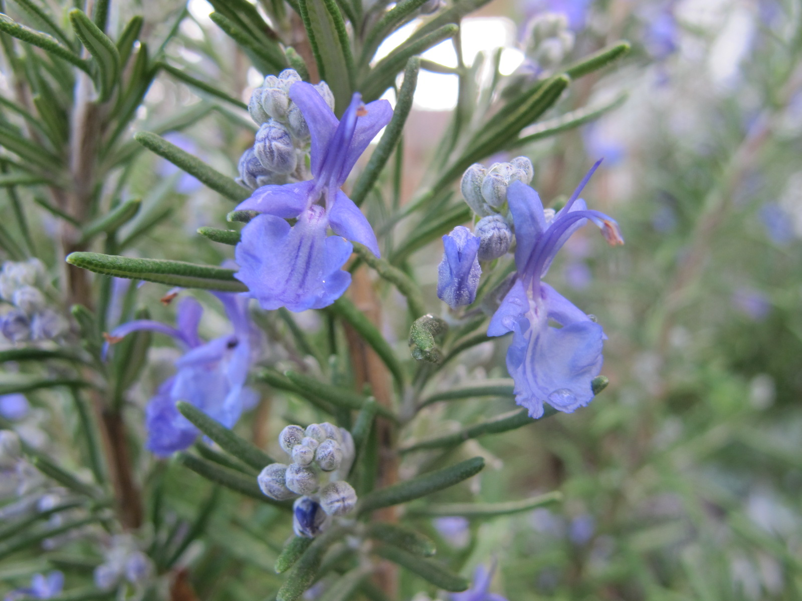 Close up image of rosemary flowers, taken on February 21, 2016 in Portland, Oregon, USA